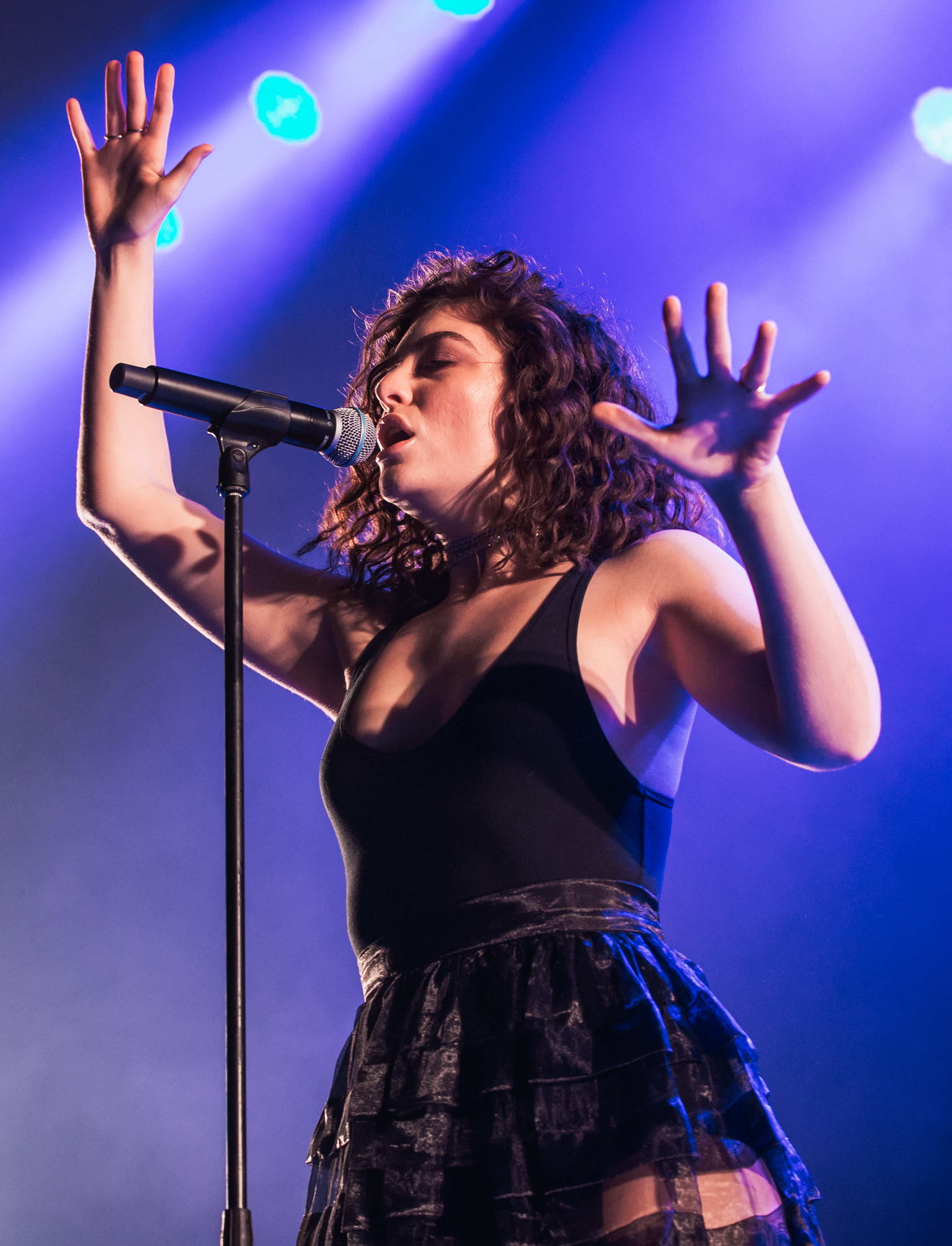 Lorde@Arena Krists Luhaers